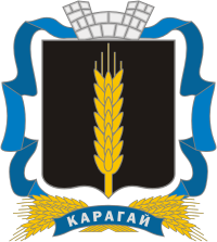 Coat of Arms of Karagaisky rayon, Perm krai, Russia, 2004